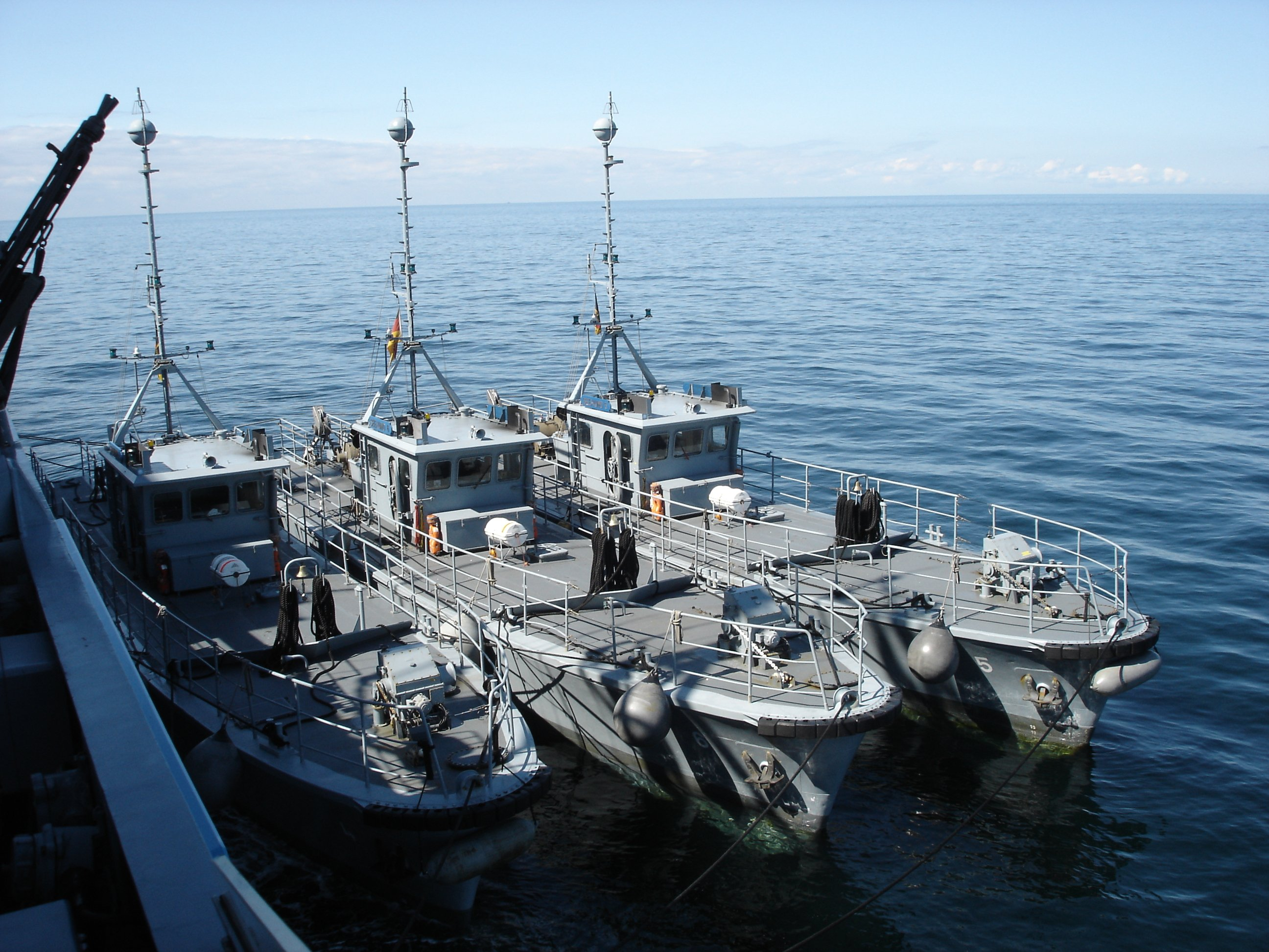 Three Seehunde (Hohlstäbe) mine sweeping ROVs of the Troika system. They probably belong to M1093 Auersbach/Oberpfalz. (Numbers 4, 5 and 6).